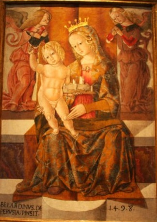 Madonna con Bambino, masterpiece of Bernardino di Mariotto